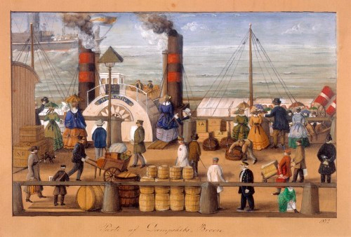 The steam vessel Horatio berthed at Kvæsthusbroen in Copenahgen, Denmark